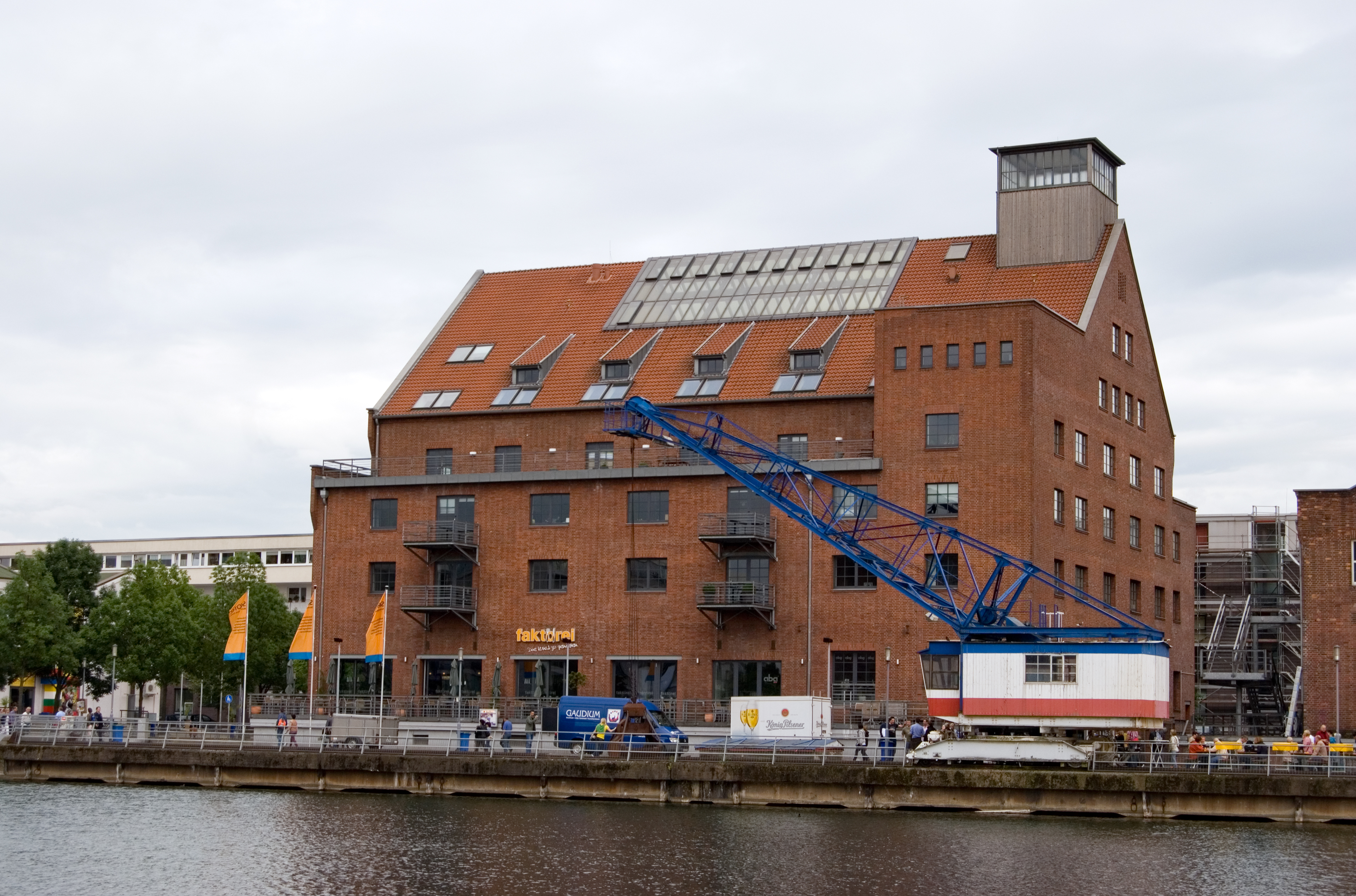 Duisburg (North Rhine-Westphalia, Germany) – Inner Harbour – logistics and office building Faktorei 21 This image shows a heritage building in Germany, located in the North Rhine-Westphalian city Duisburg (no. 380 [Gebäude], 382 [Kran]). This photograph was taken with a Nikon D3000